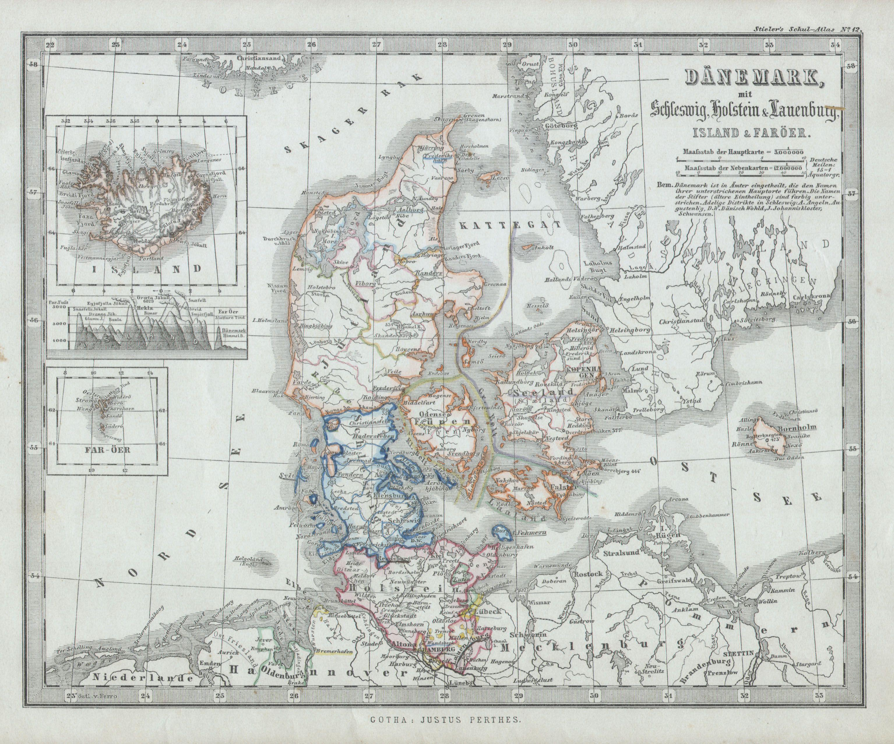 This fascinating 1862 map by Justus Perthes and Stieler depicts Denmark, Schleswig, Holstein, Iceland, and the Faeroe Islands. There are inset maps of Ireland and the Faeroe Islands. In a display of cartographic flair unique to Perthes maps, a land elevation profile is depicted on the bottom of the Iceland map. Unlike other cartographic publishers of the period, the Justus Perthes firm, did not transition to lithographic printing techniques. Instead, all of his maps are copper plate engravings and hence offer a level of character and depth of detail that was impossible to find in lithography or wax-process engraving. Issued in the 1862 edition of Stieler’s Schul-Atlas.